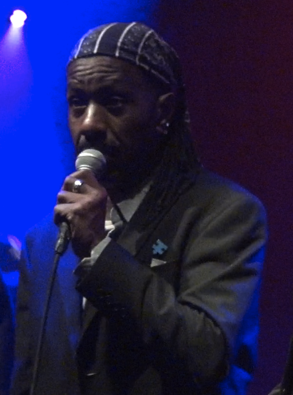 Ronny Drayton at the Million Man Mosh, January 4 2012